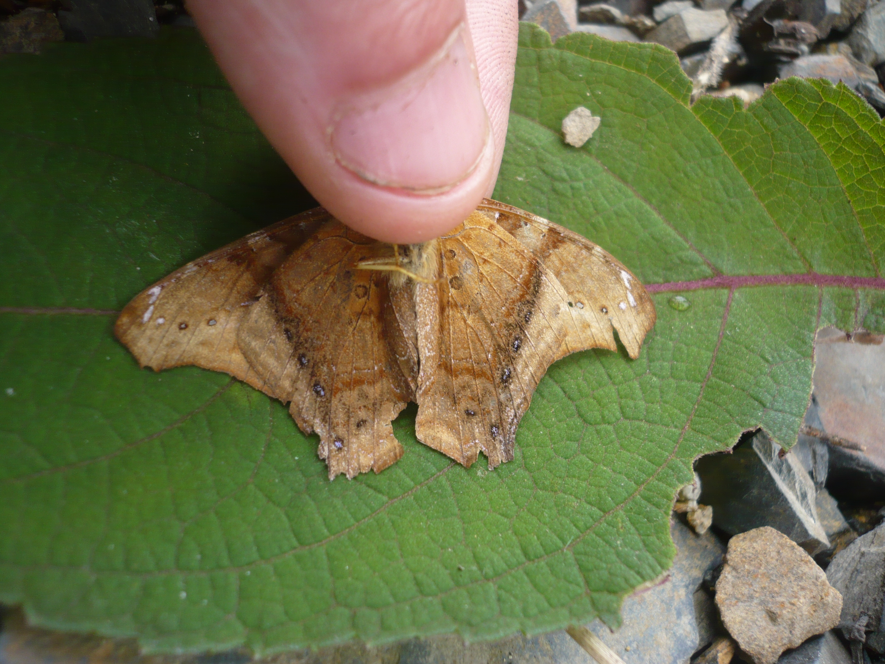 Hypanartia dione, Manu National Park, Peru.